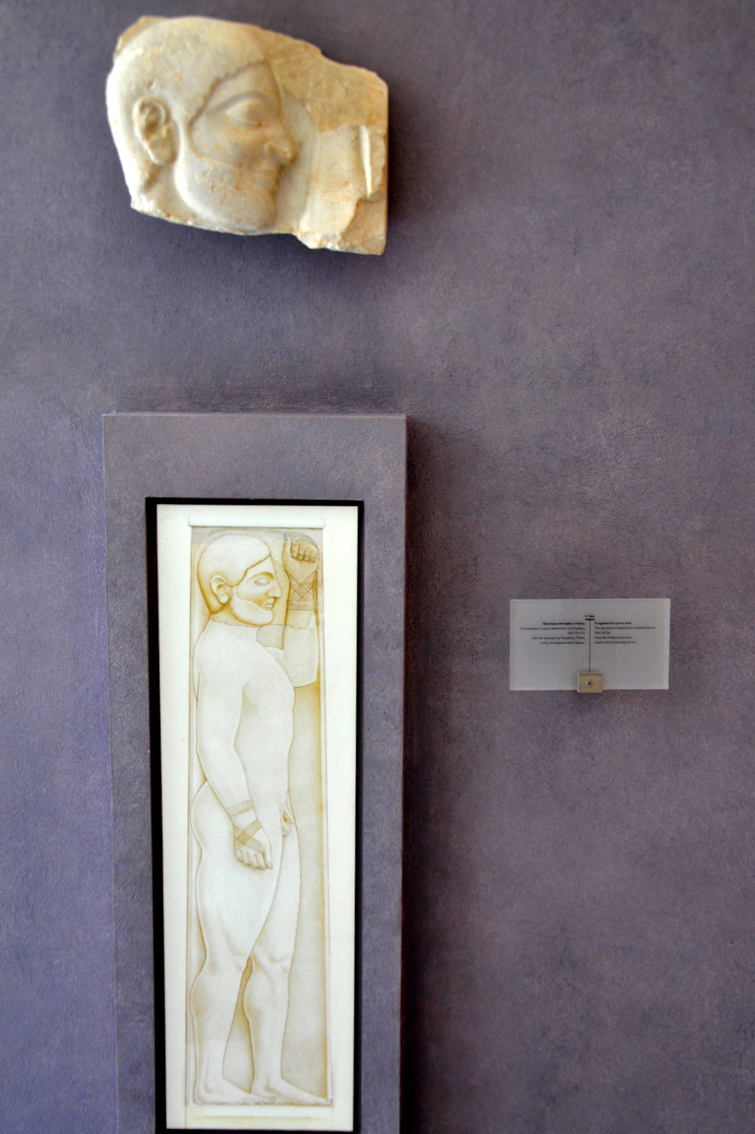 A boxer - fragment of a grave relief, 560-550 BC